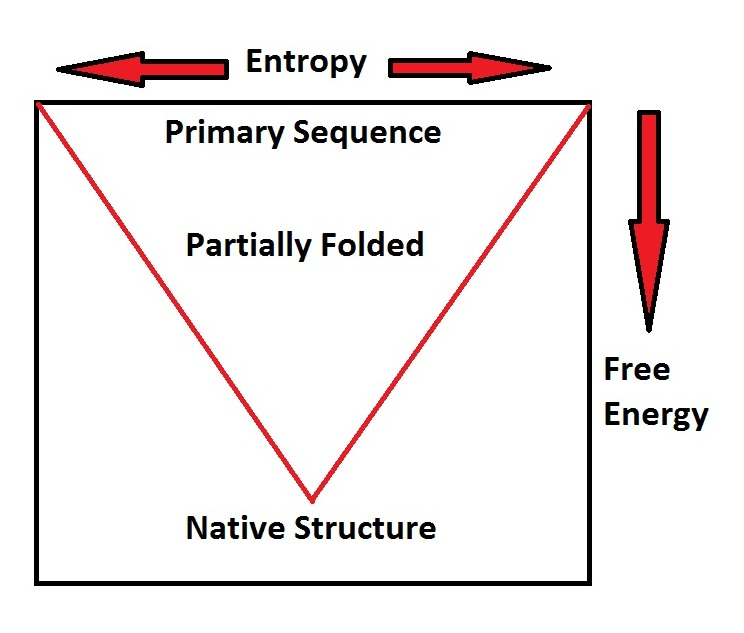 Diagram correlating entropy and free energy with protein folding. Correctly folded three-dimensional proteins (native structures) have less free energy than partially-folded or primary structures.